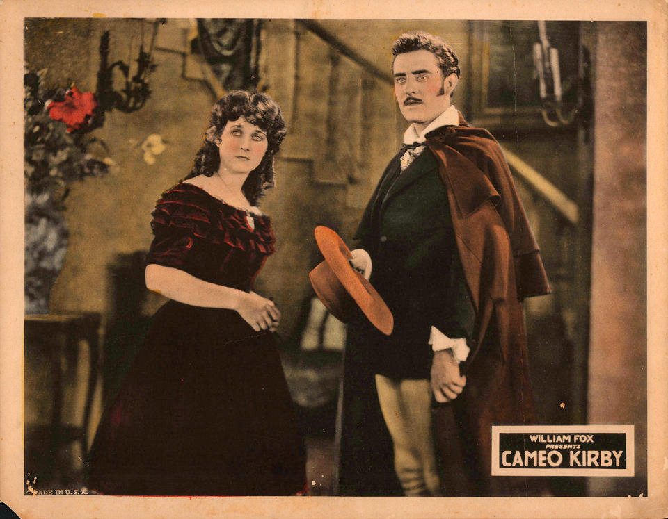 Lobby card for the American drama film Cameo Kirby (1923).